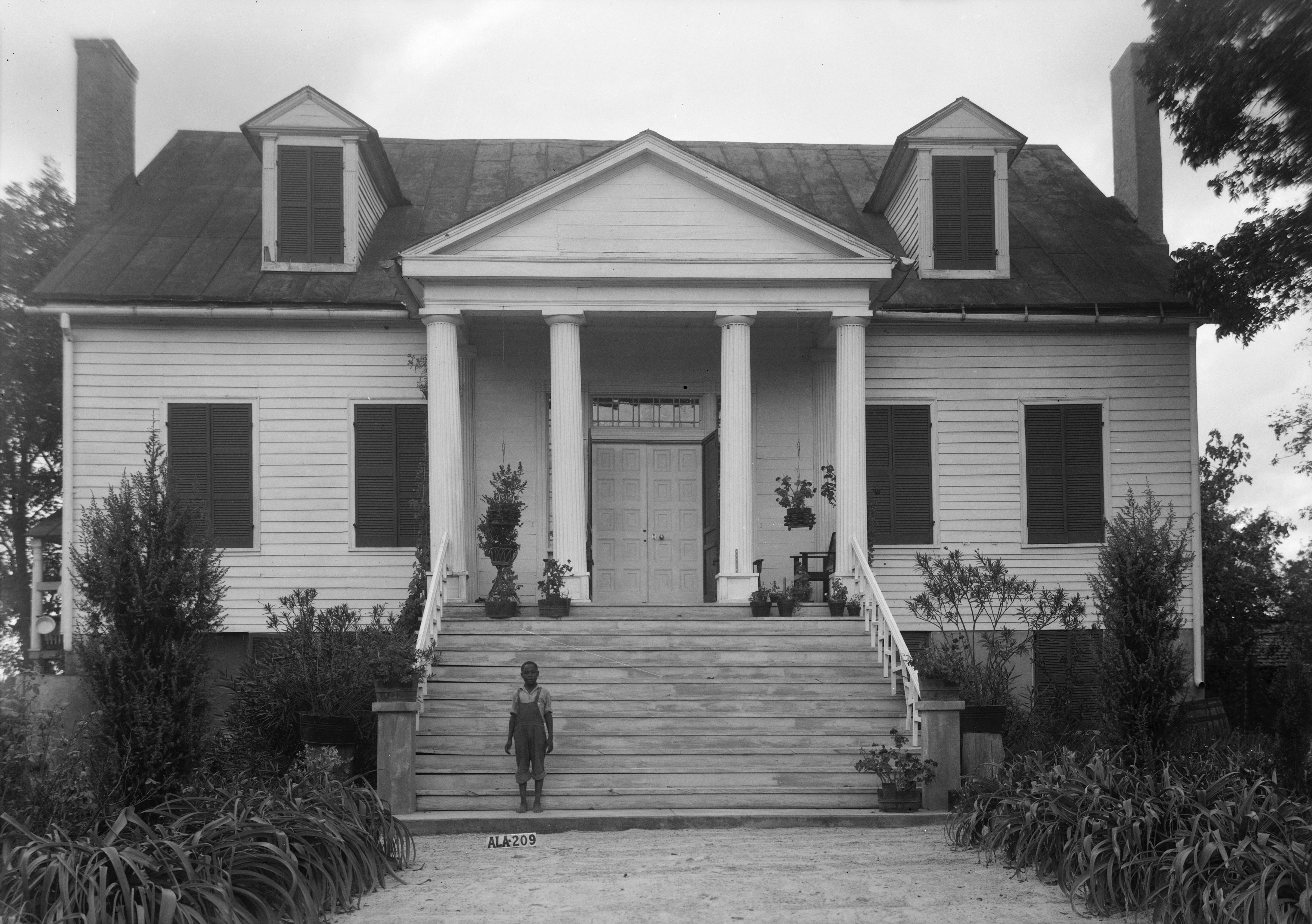 Boligee Hill, (Renamed Myrtle Hall about 1869, known as Myrtle Hill as of 2007.) Near U.S. Highway 11, Boligee vicinity, Greene County, AL. CLOSE-UP SOUTH ELEVATION (FRONT).